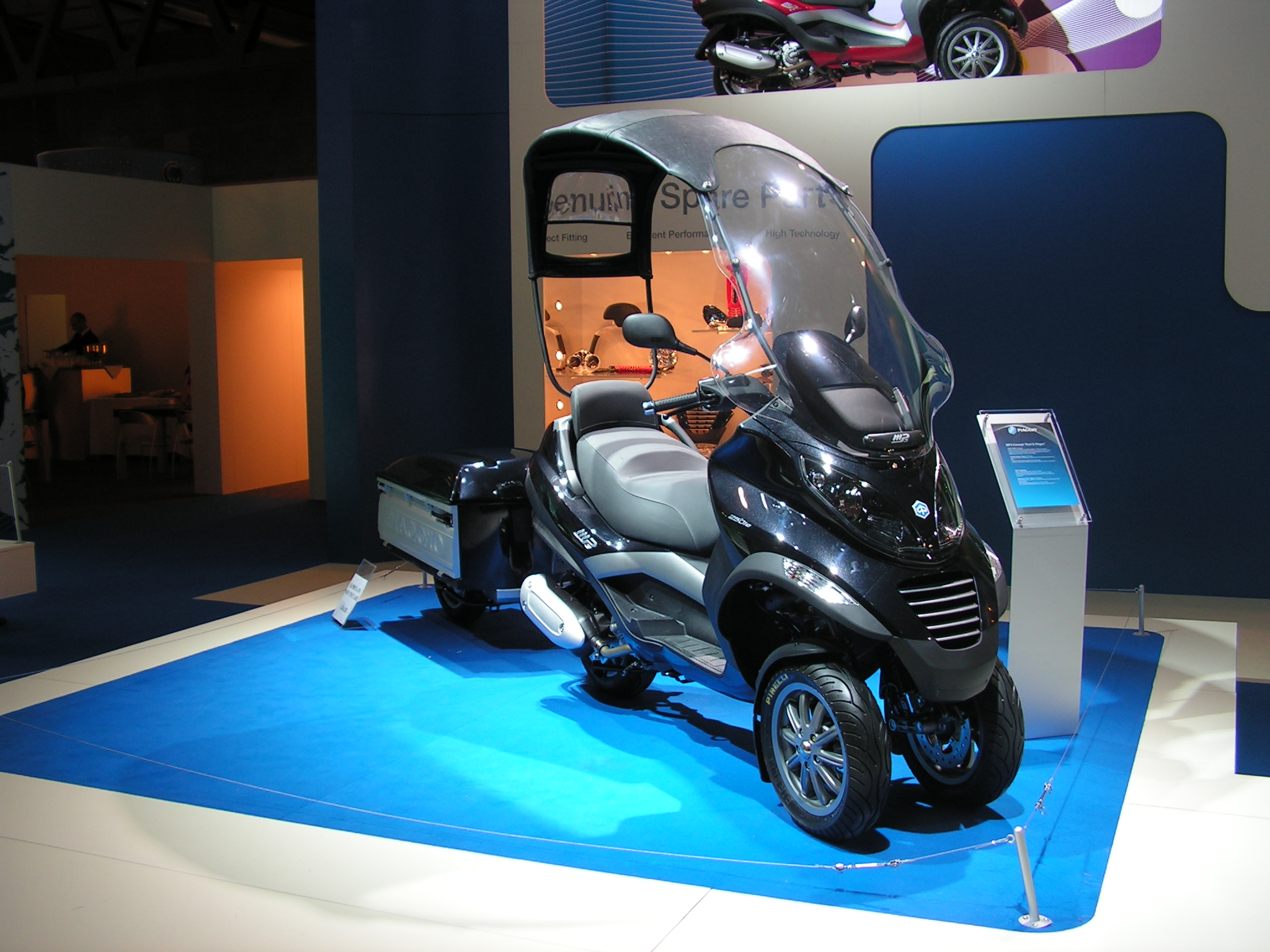 Piaggio MP3 Roof & Wagon (concept bike) - EICMA 2007, Milan (Italy)